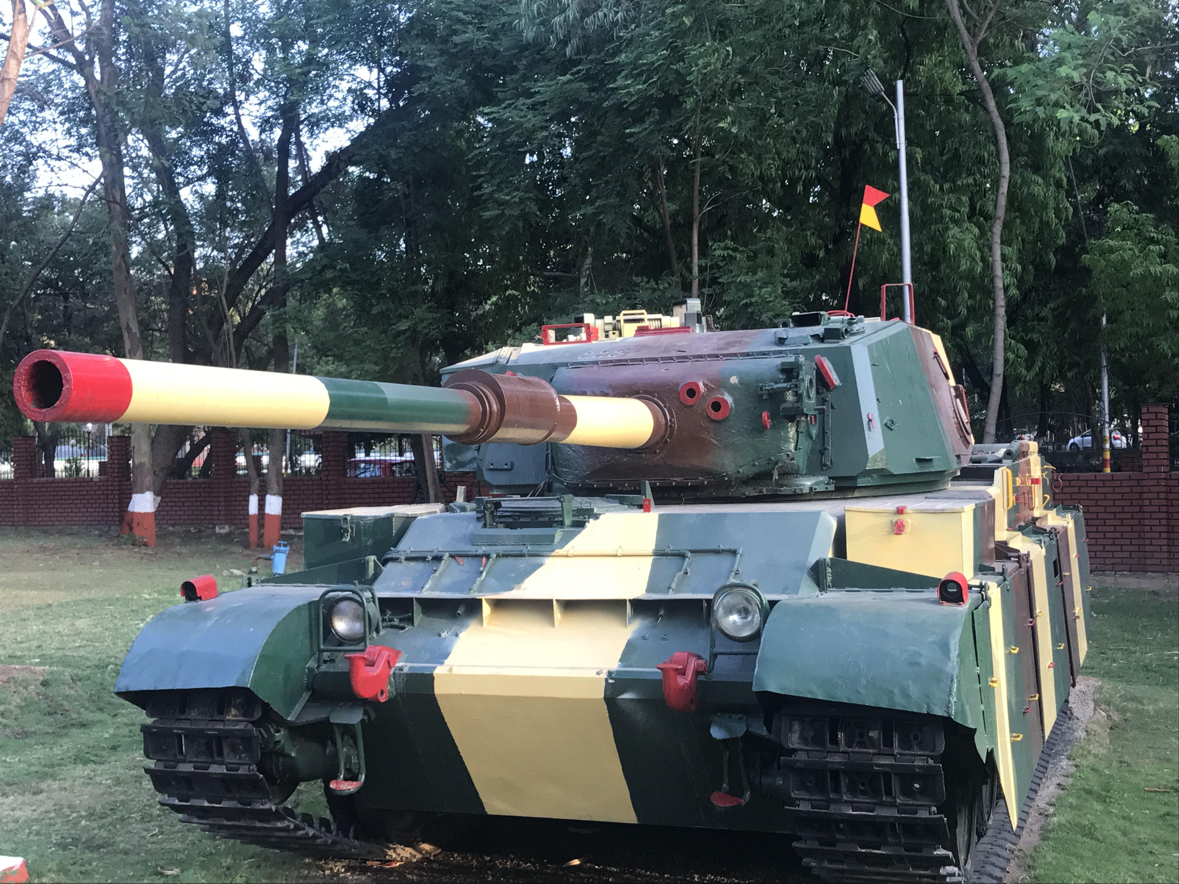 The country's first indigenous Main Battle Tank was built on a licensed design of Vickers MK 1 of UK origin and was introduced in service in the year 1965 . This main battle tank was extensively used in both 1965 and 1971 Operations in several battles of Karanjkot and Barmer sector and continued to be the mainstay of the Armoured Formations for several years. The tank weighs 39000kg. For enhanced fire power, the tank was equipped with 105 mm L72A gun as the main armament, 12.7 mm Machine Gun and 7.62 mm Machine Gun as secondary armament.